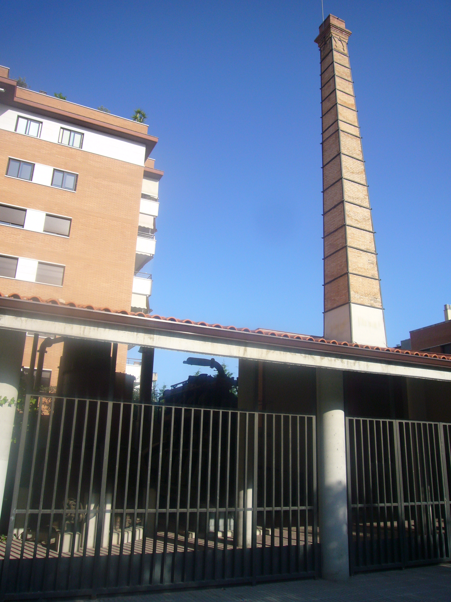 Wood gas generator (gazifier plant) of Cal Pasqual, in Igualada, which was used until 1955. It has been preserved, and it is now the only one well preserved in Catalonia, and probably in Europe.